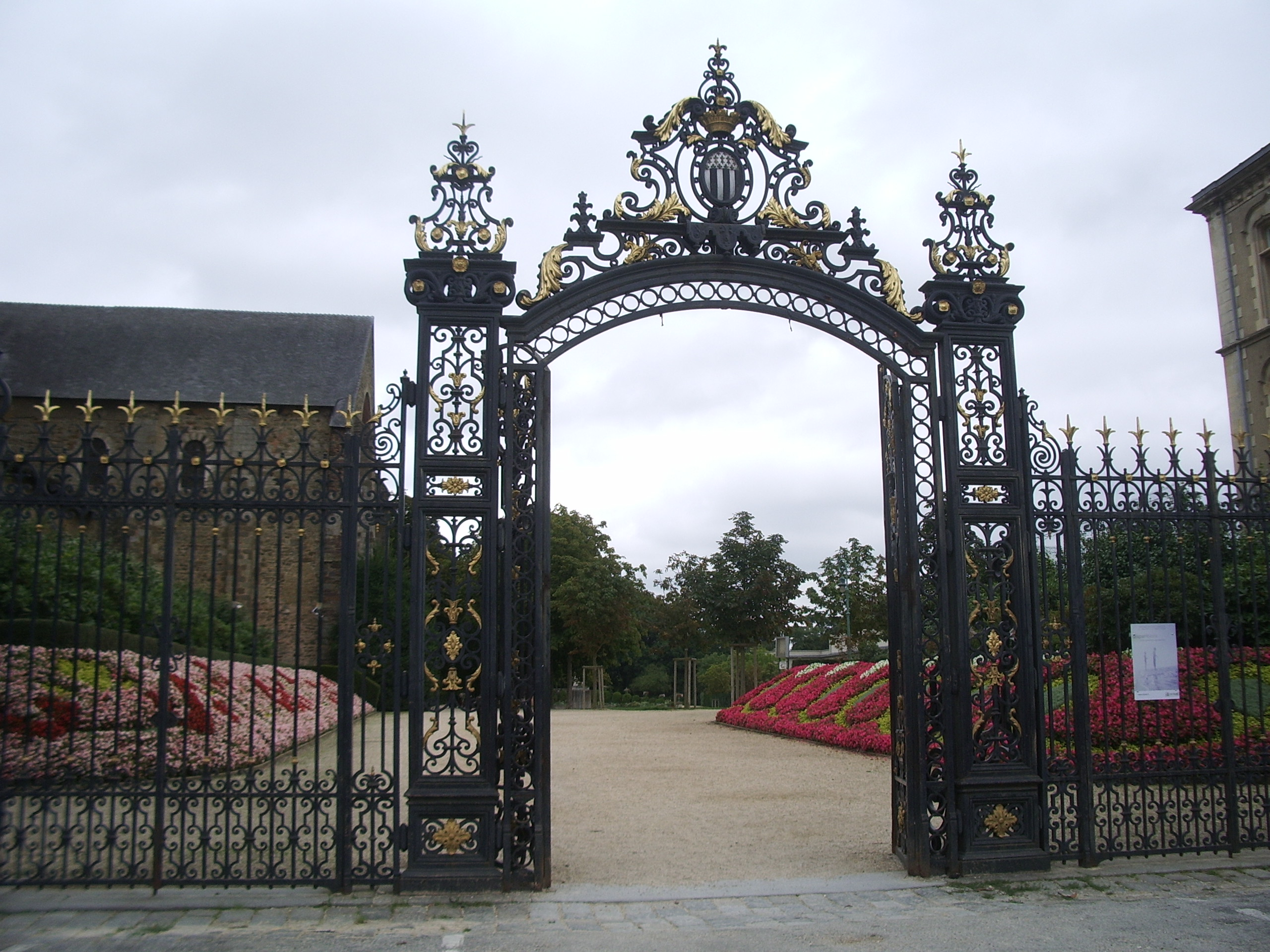 Gate of the thabor park (Rennes France)